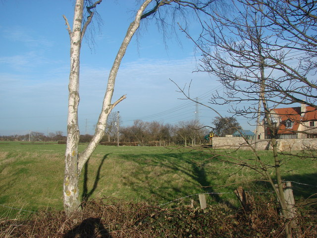 Ancient Moat in a field adjoining Manor House, Thorpe In Balne